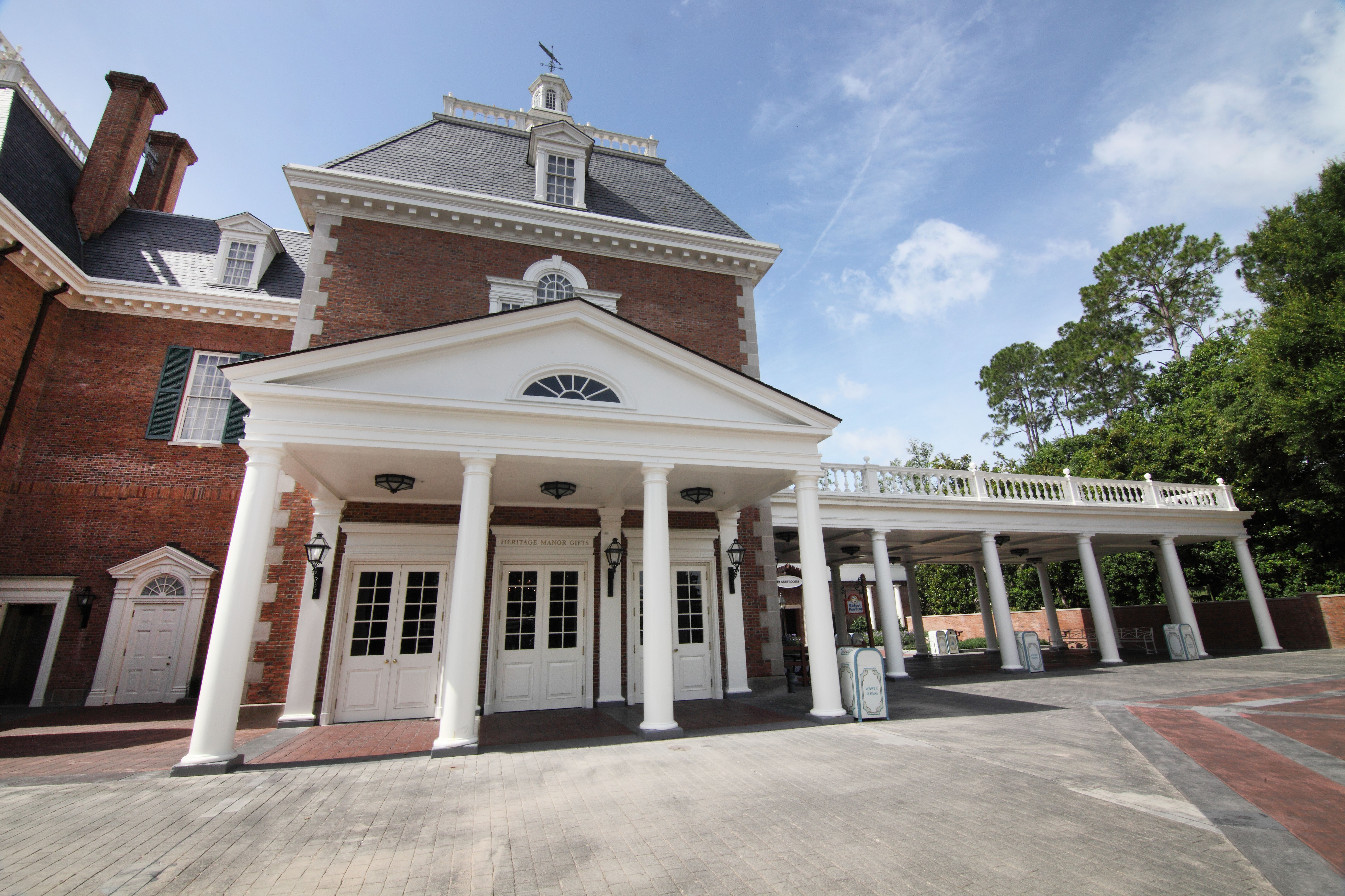 Heritage Manor Gifts at The American Adventure in World Showcase at EPCOT Center.